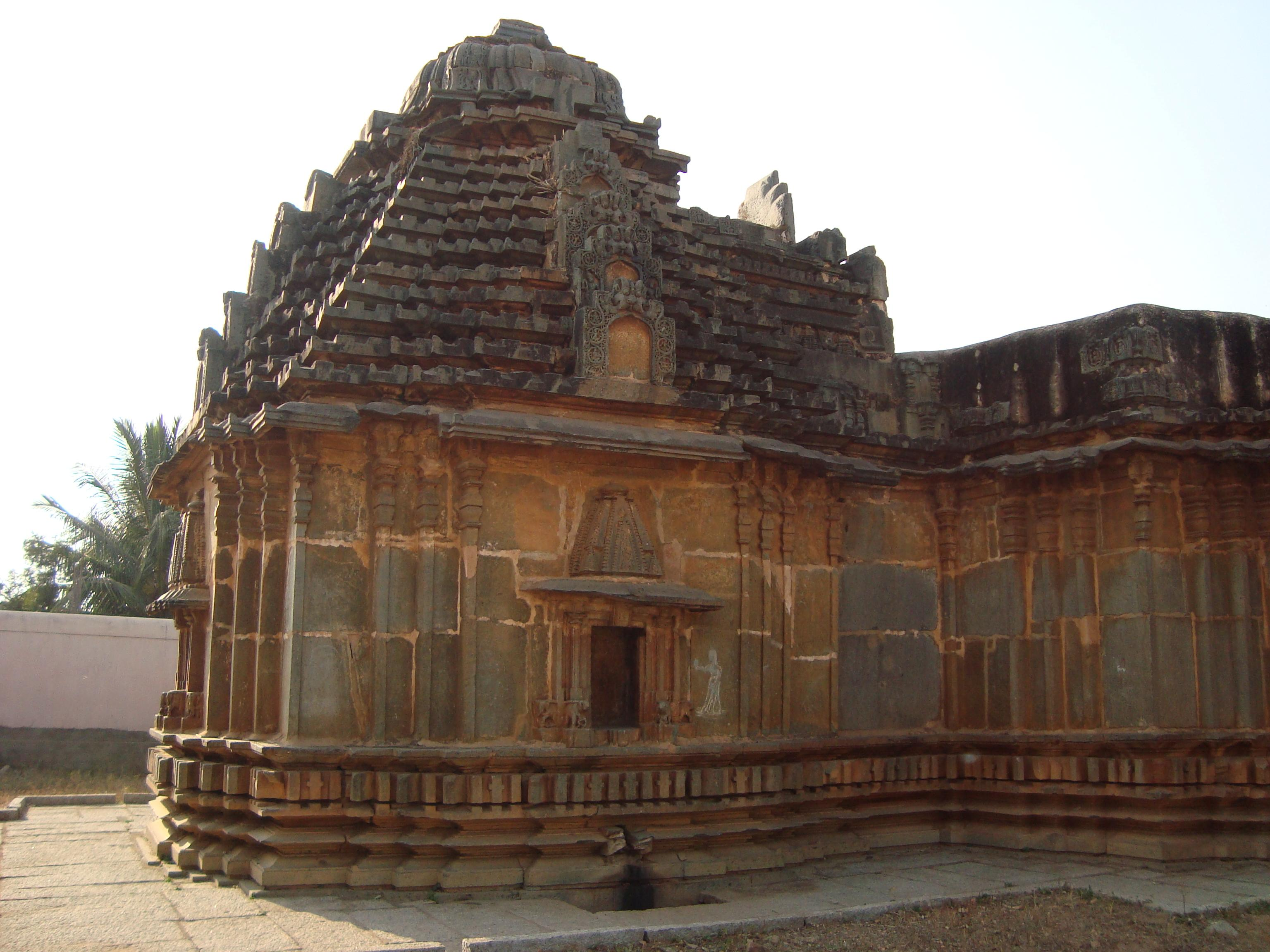 Lakshmeshwara historical Jain temple Author and Source : Manjunath Doddamani, Gajendragad/Hubli, Karnataka (North), India.